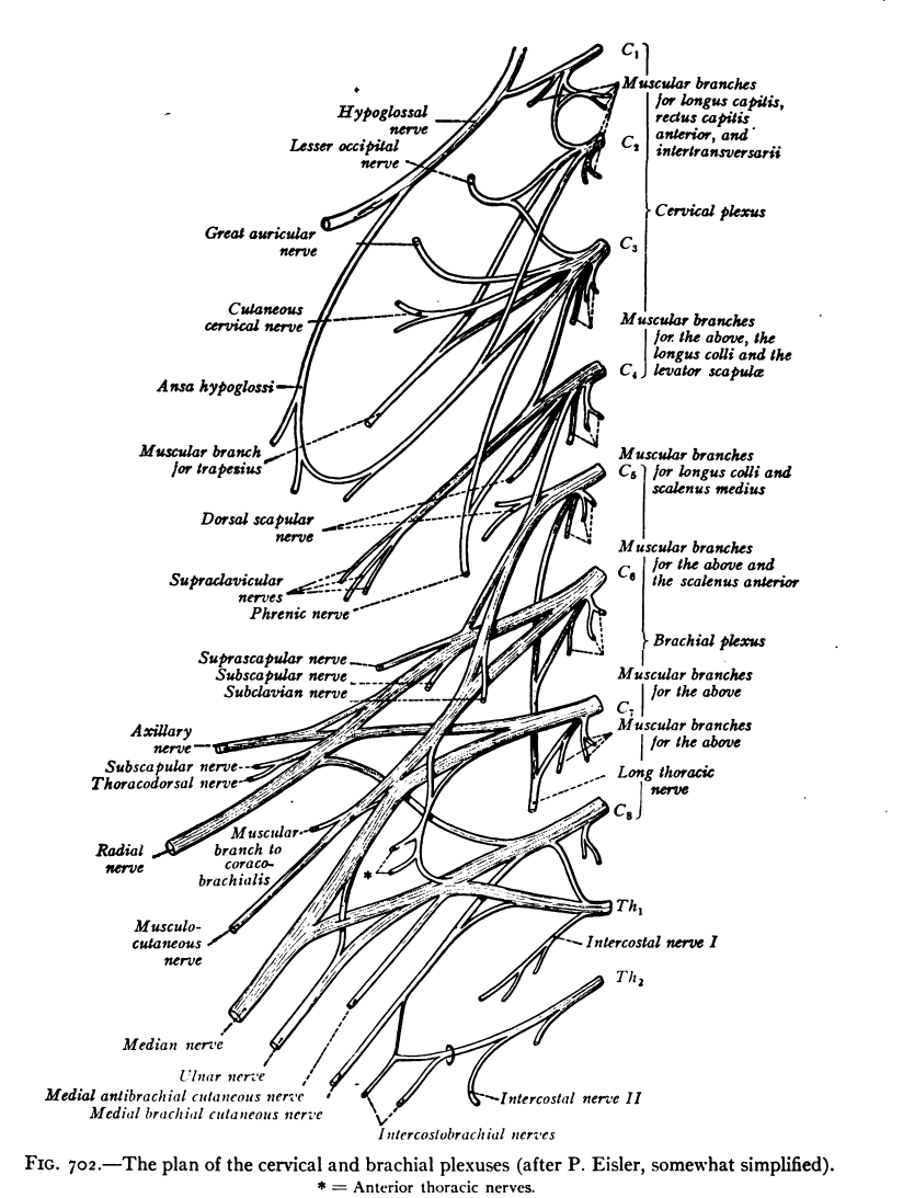 An anatomical illustration from Sobotta's Human Anatomy 1908